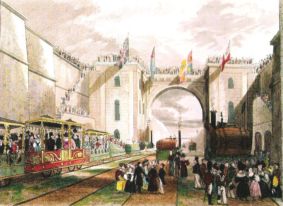 The Duke of Wellington's train being prepared for departure from Liverpool to Manchester, 15 September 1830